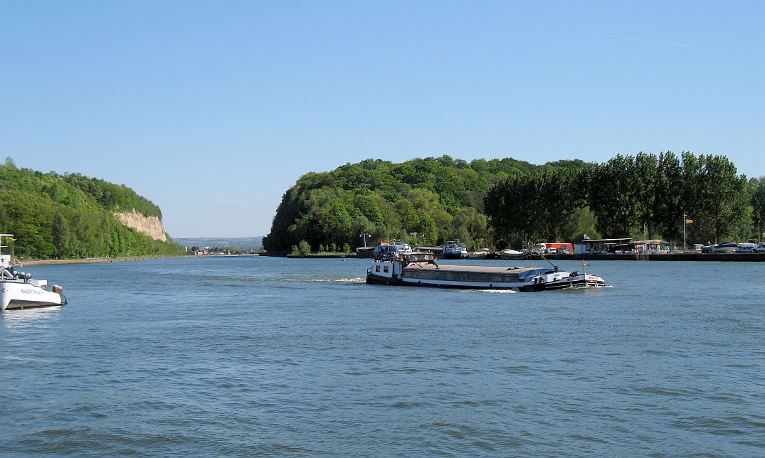 South-east view on the Albert Canal in Kanne, Belgium